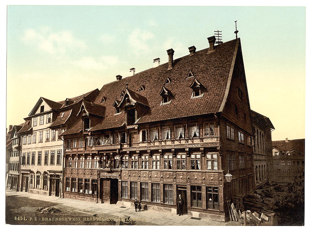 Braunschweig, Haus zur Hanse, Hofbrauhaus Wolters, ca. 1890-1900